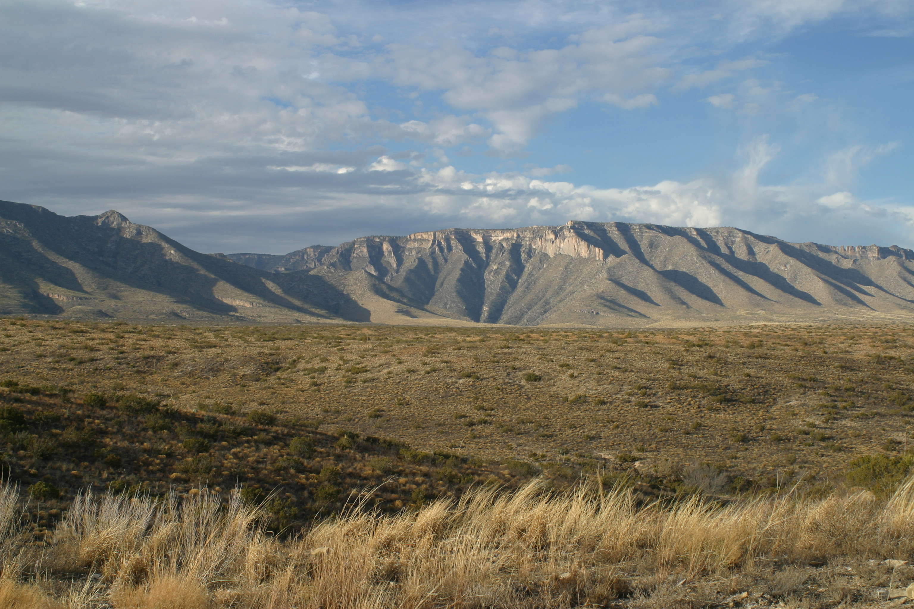 The mouth of McKittrick Canyon in the Guadalupe Mountains — Guadalupe Mountains National Park, West Texas.